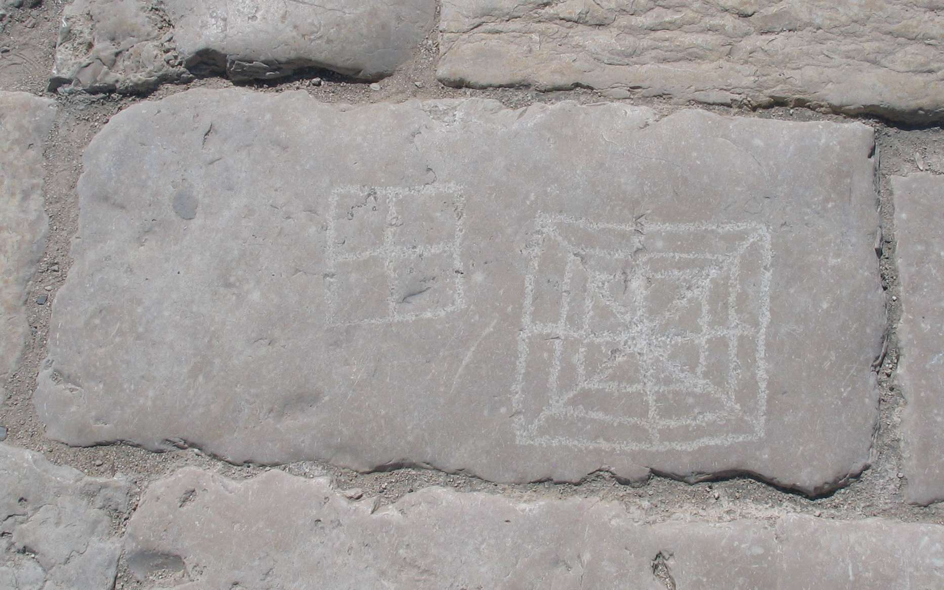 Tzippori, Israel.